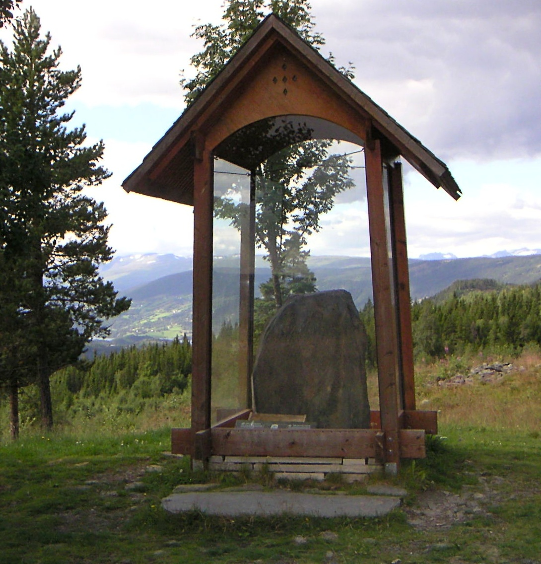 For more information, see also Einang stone